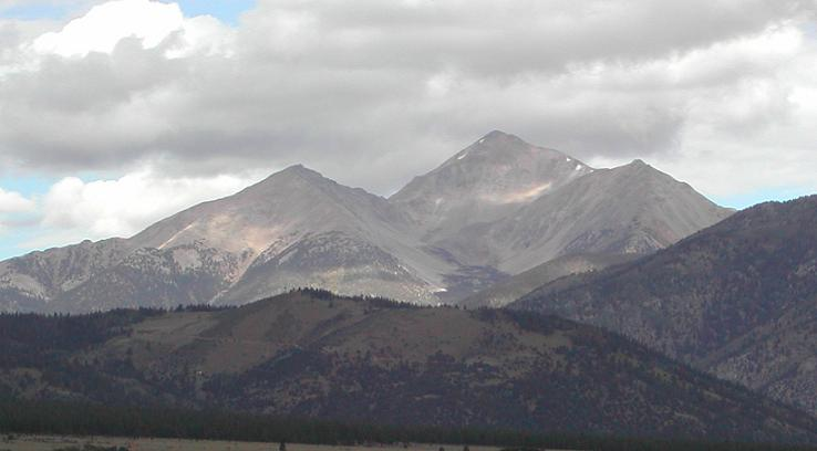 Austin Trow, Mount Yale.